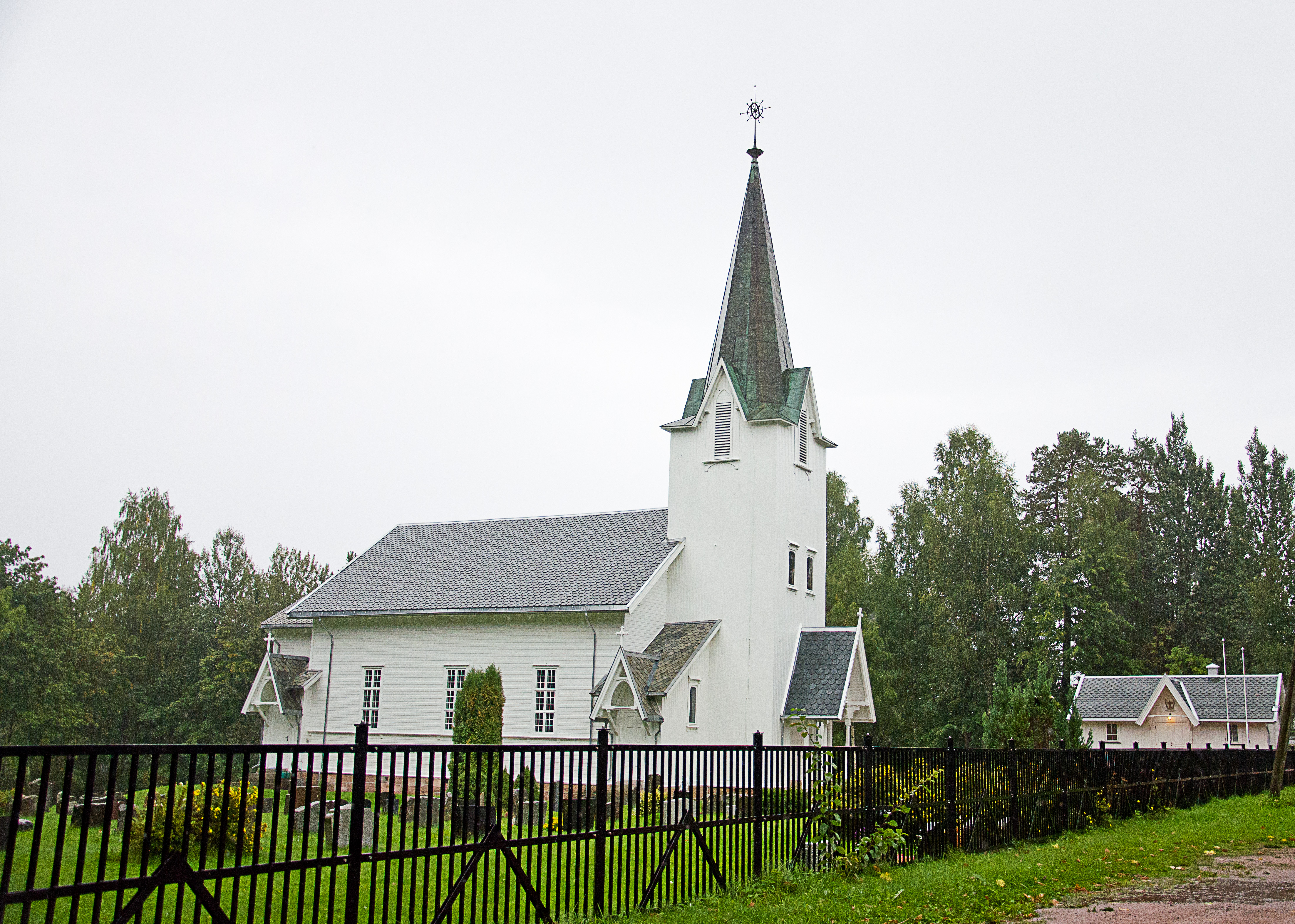 Berger church, Svelvik, Vestfold, Norway